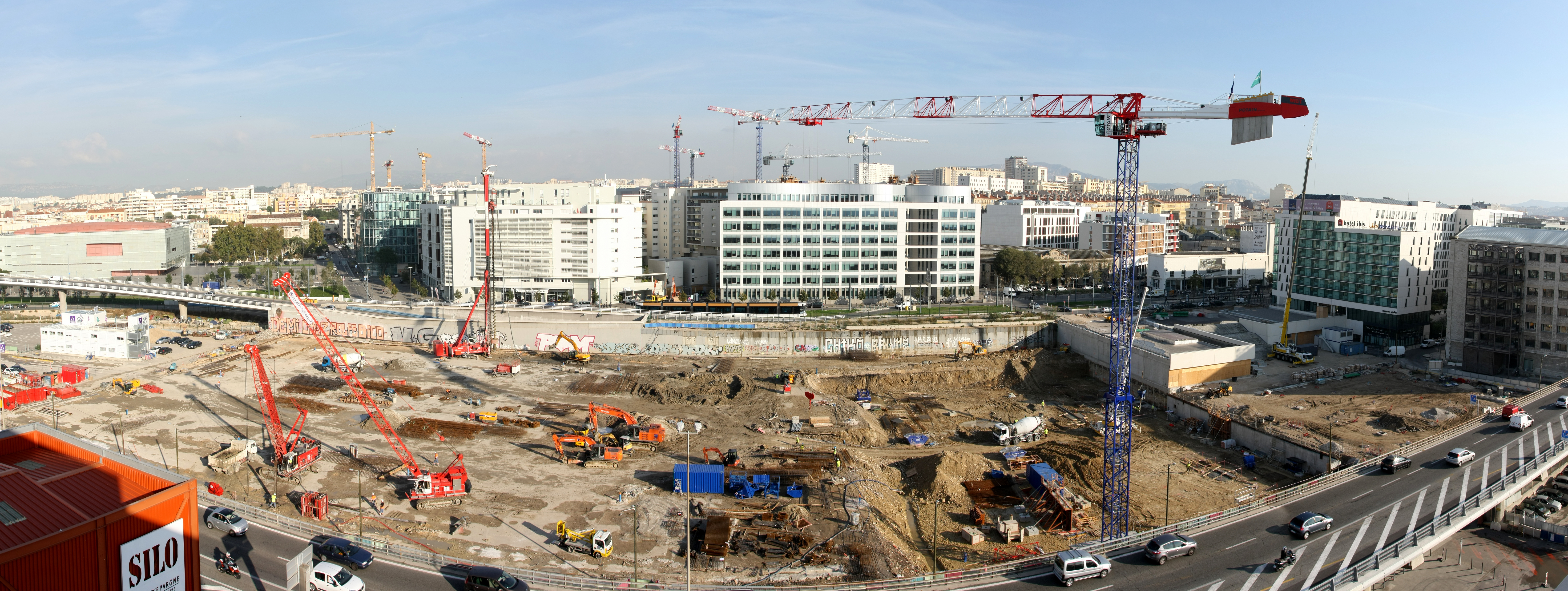 The construction site for the Quais d'Arenc in Marseille in October 2012.